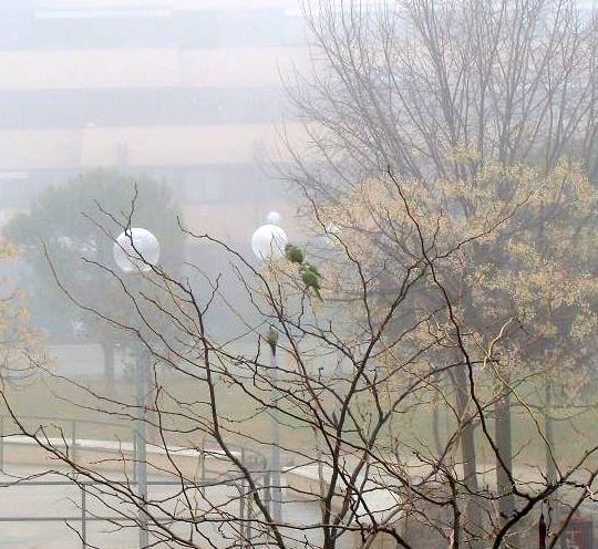 Several Monk Parakeets in a park in Majadahonda (Madrid) on a foggy day